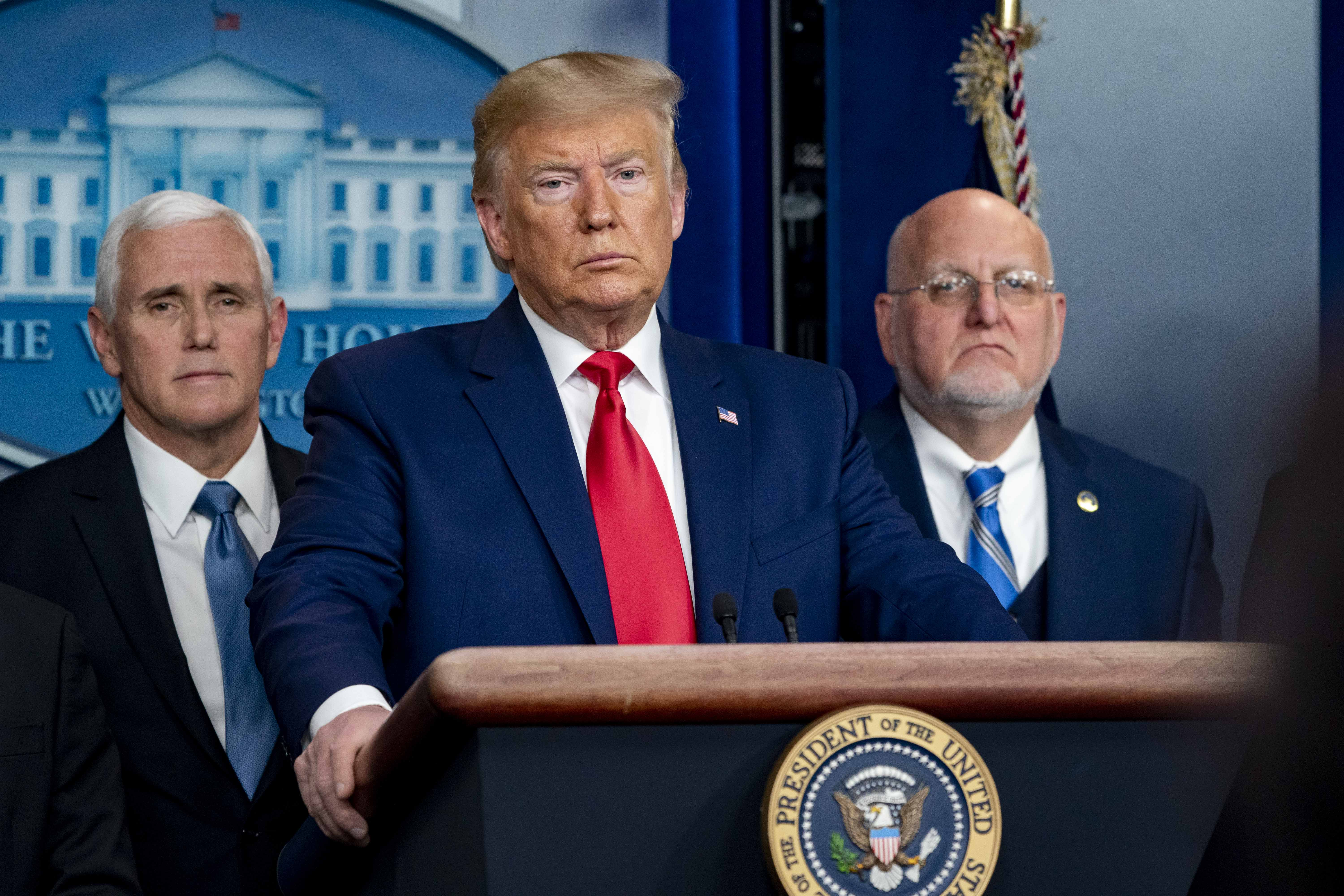 President Donald J. Trump, joined by Vice President Mike Pence, takes questions from reporters during a Coronavirus Task Force update Saturday, Feb. 29, 2020, in the James S. Brady Press Briefing Room of the White House. (Official White House Photo D. Myles Cullen)